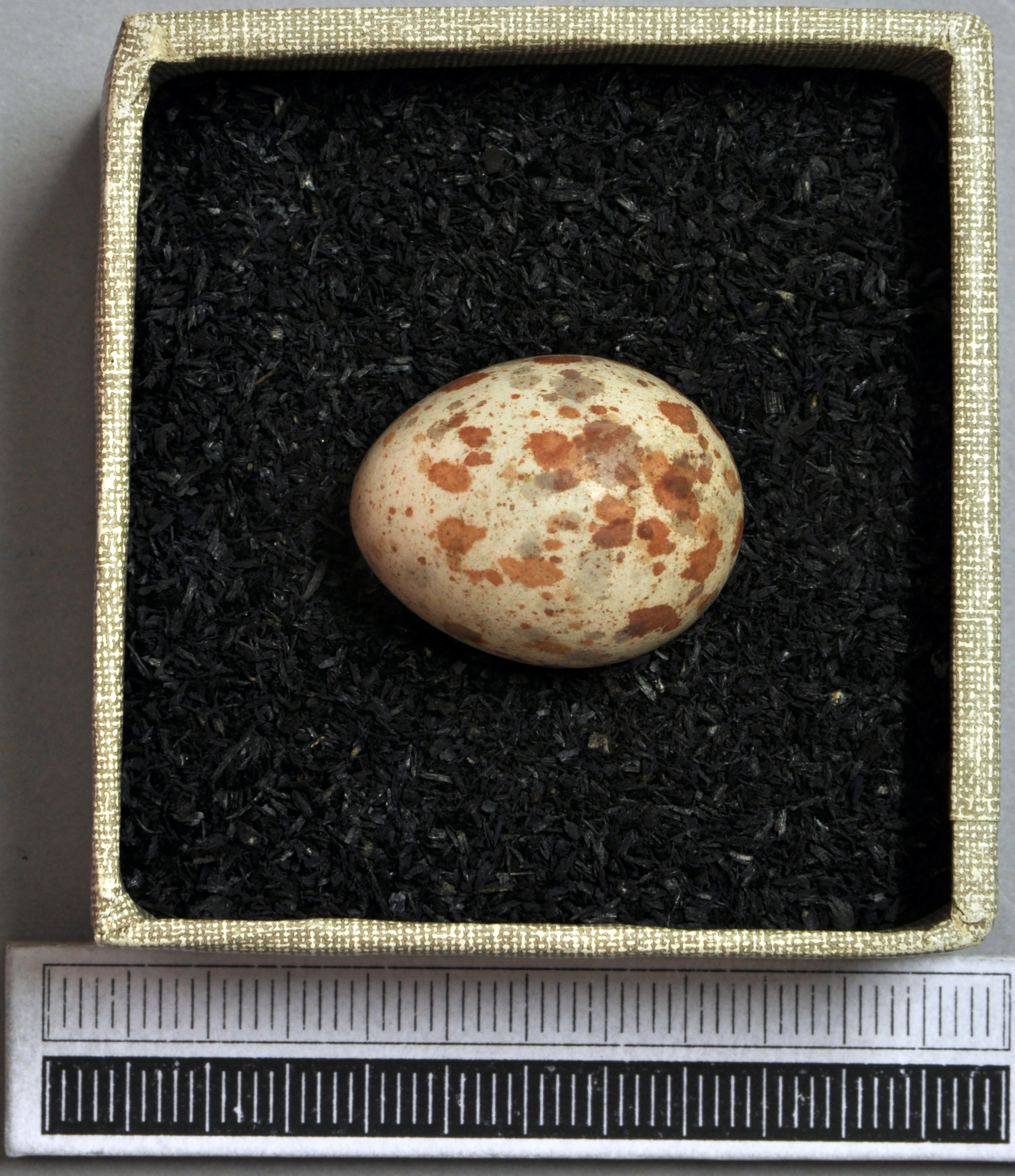 Northern mockingbird Mimus polyglottos , egg, Coll. Museum Wiesbaden